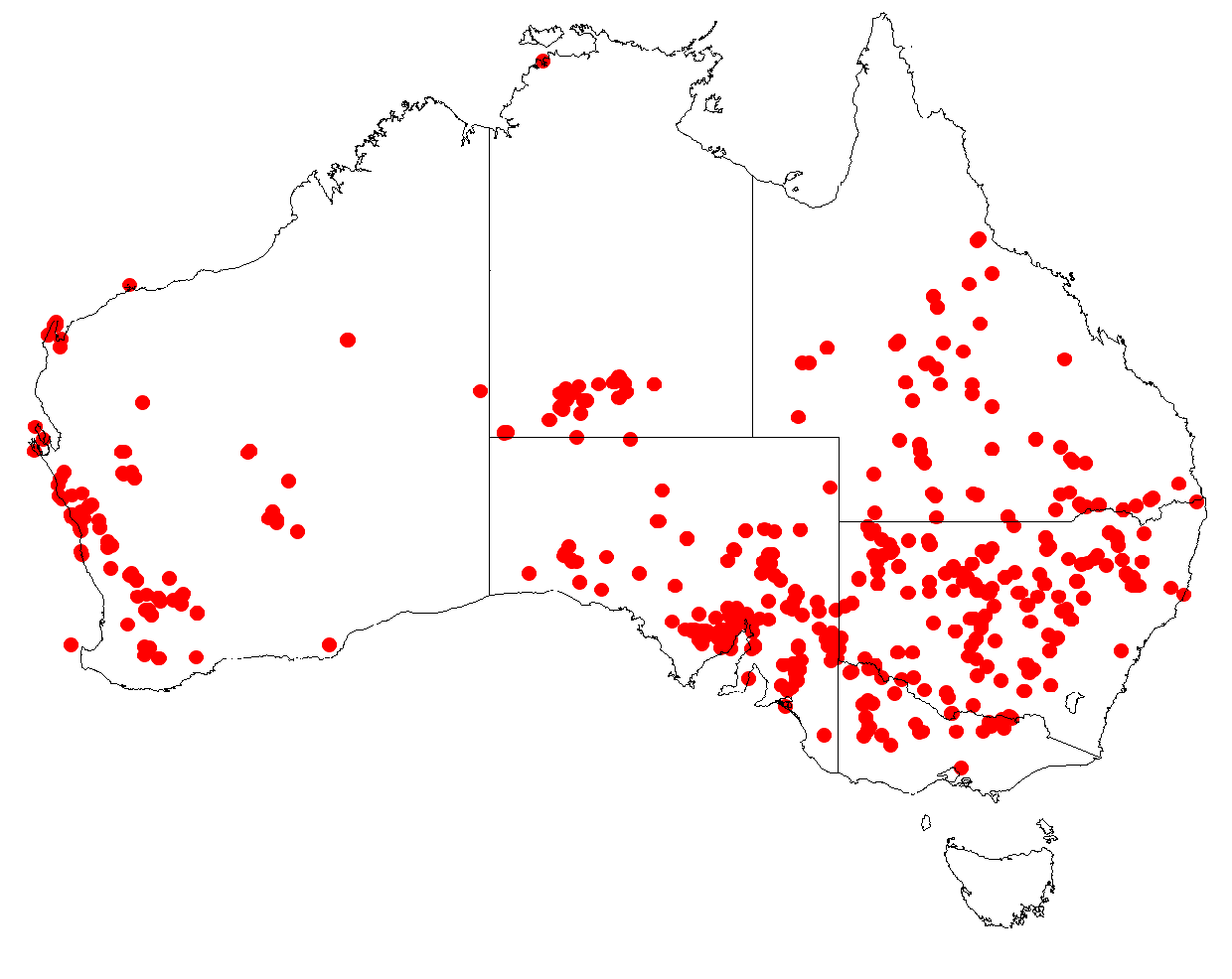 Australian distribution of Amyema miraculosa based on download from Australasian Virtual Herbarium May 9, 2018